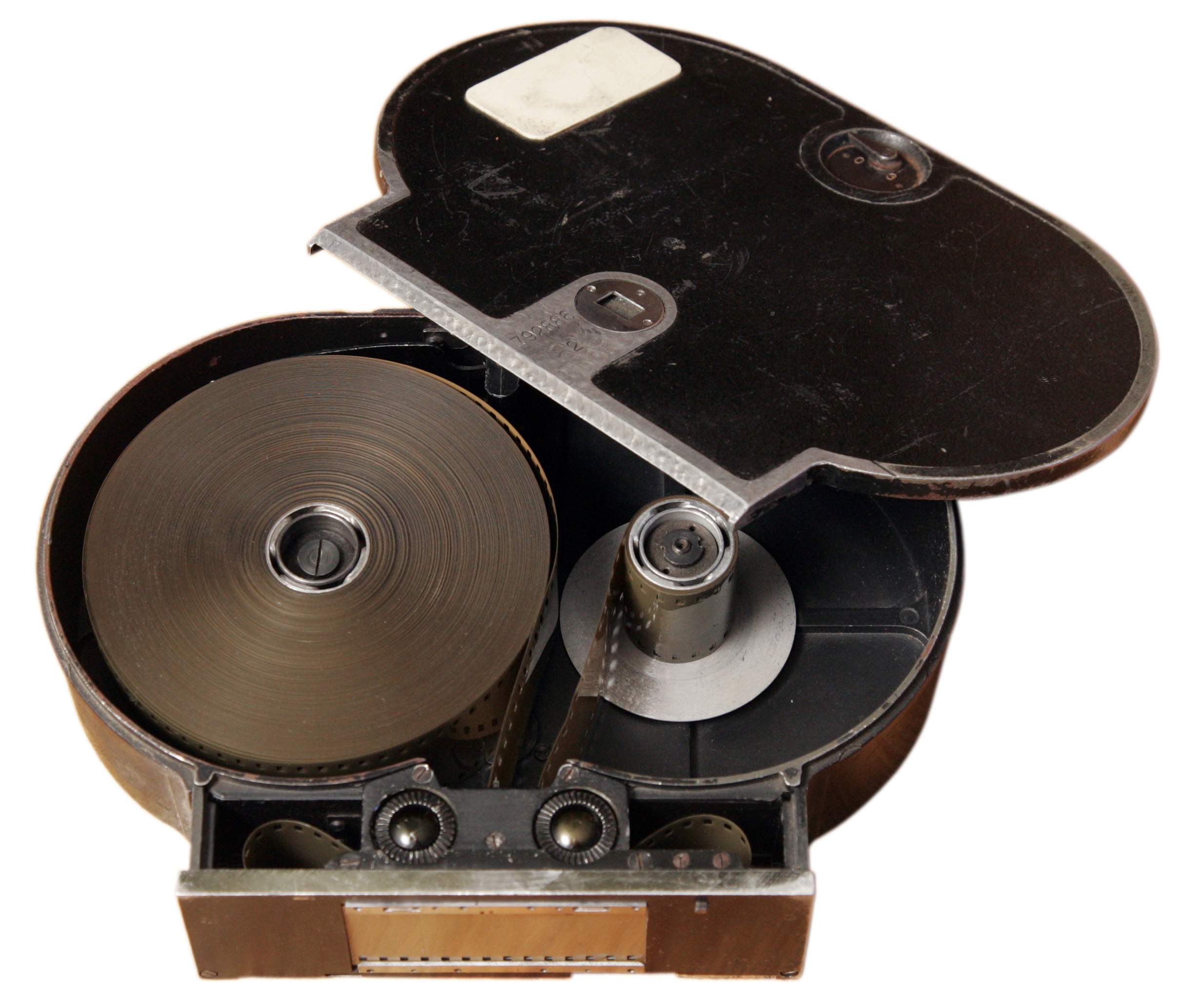 Soviet 35-mm motion picture camera Konvas-automat film cassette.